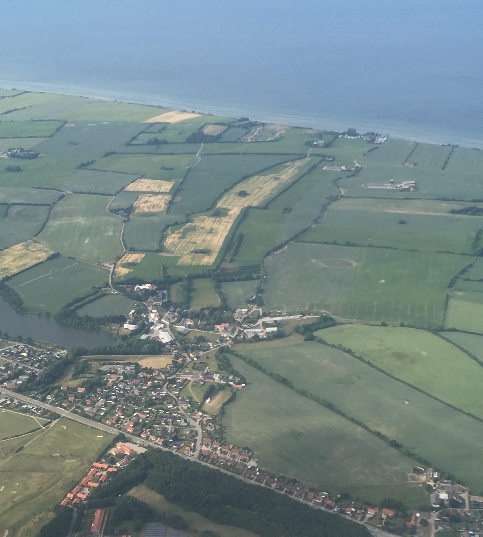 View over the Danish town Lavensby.